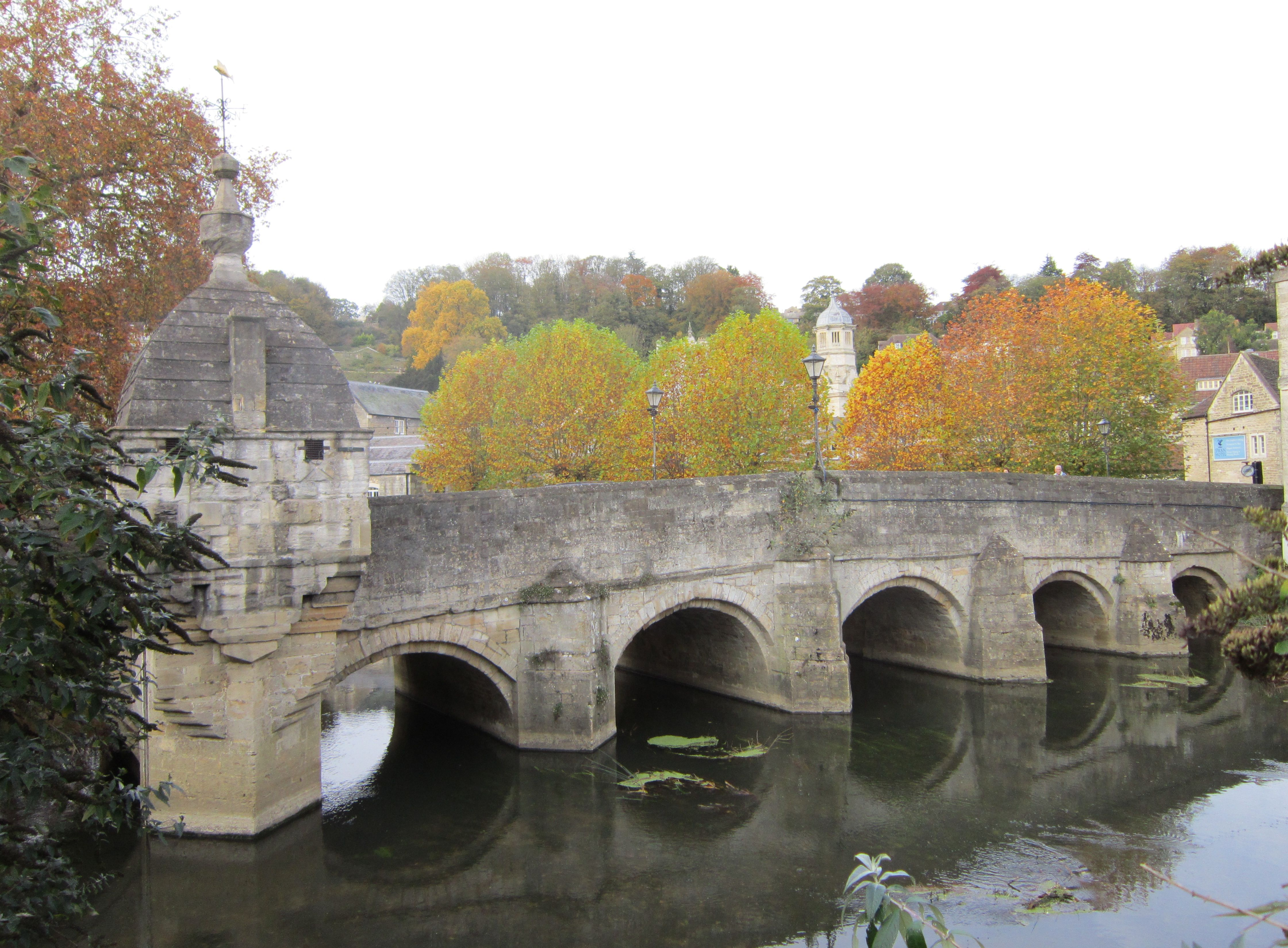 Town Bridge in Bradford on Avon, Wiltshire, with the village lock-up at the left